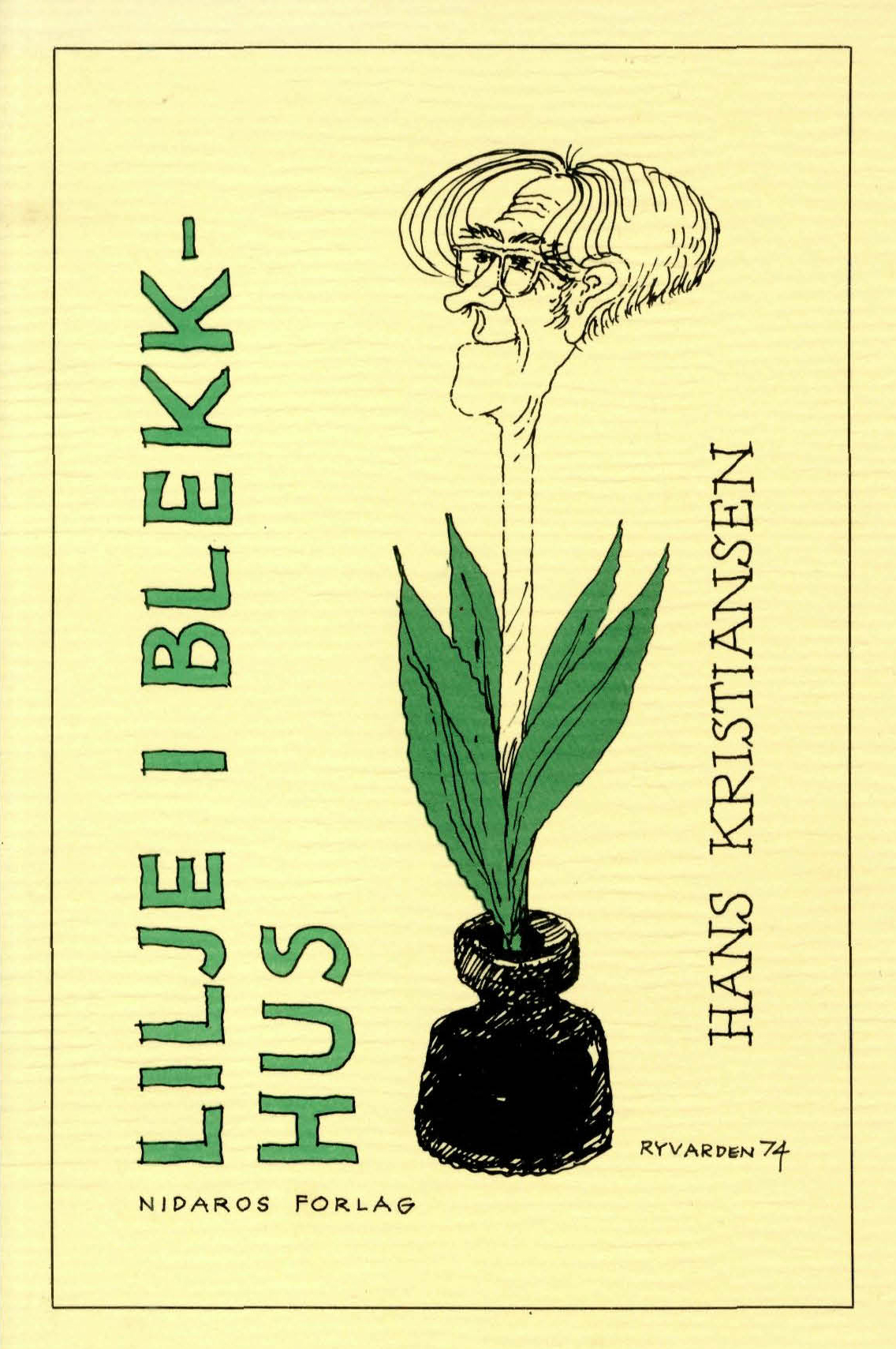 Front cover of the book "Lilje i blekkhus" (=Lily in ink bottle), a collection of poetry by Hans Kristiansen. The caricature shows H. Kristiansen